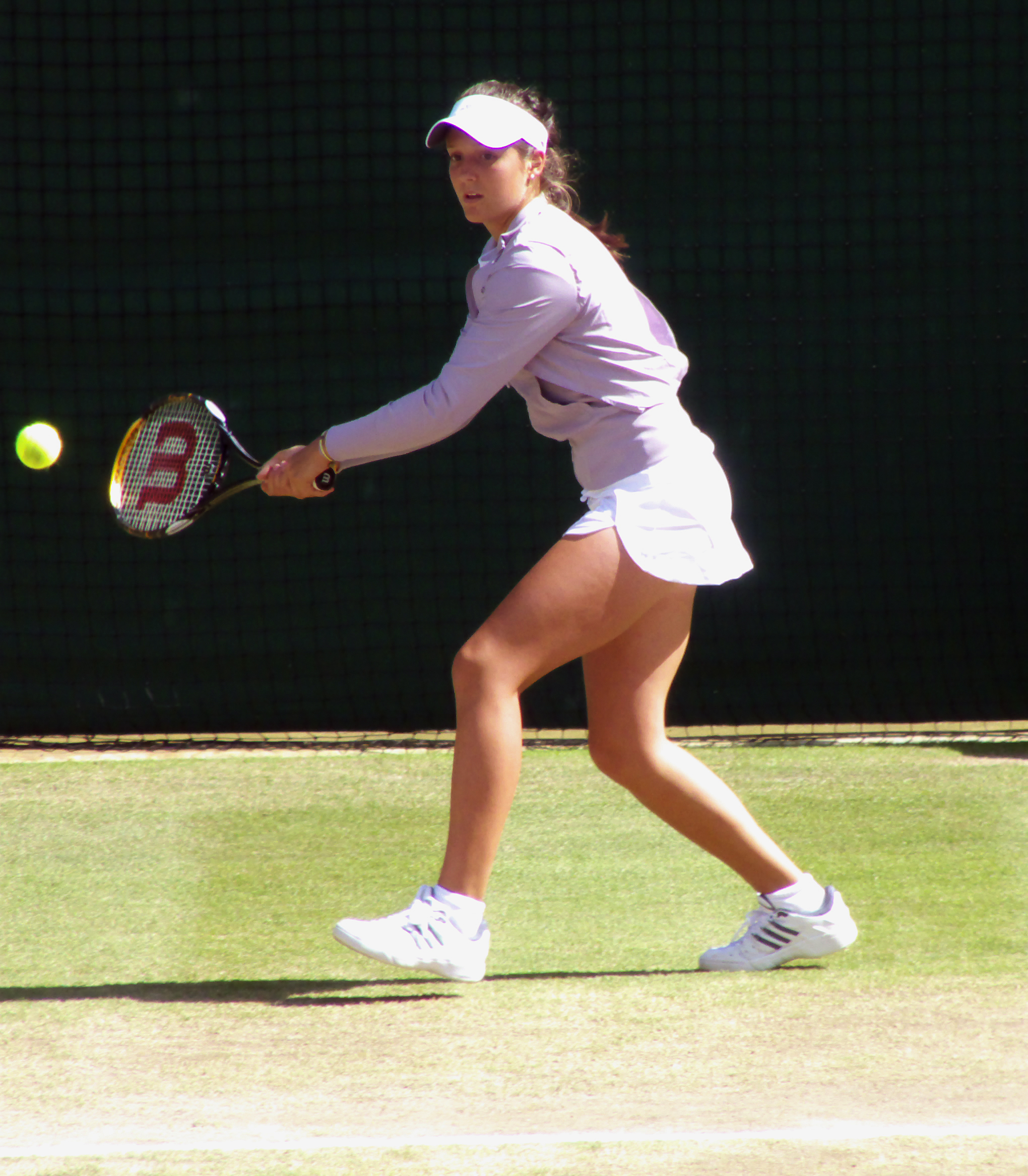 Laura Robson at the 2008 Wimbledon championships